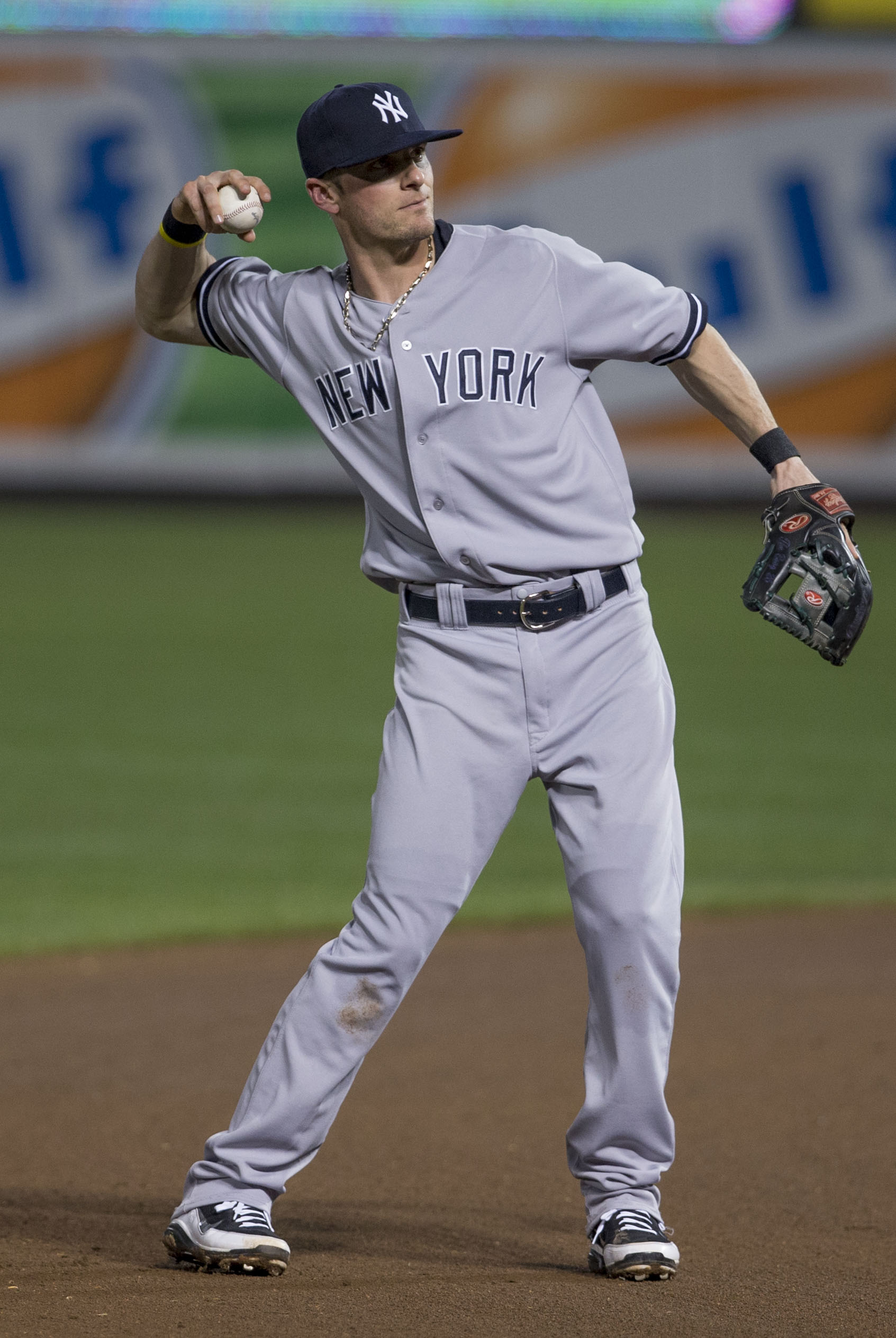 Brendan Ryan - Yankees vs Orioles - Sept 11, 2013